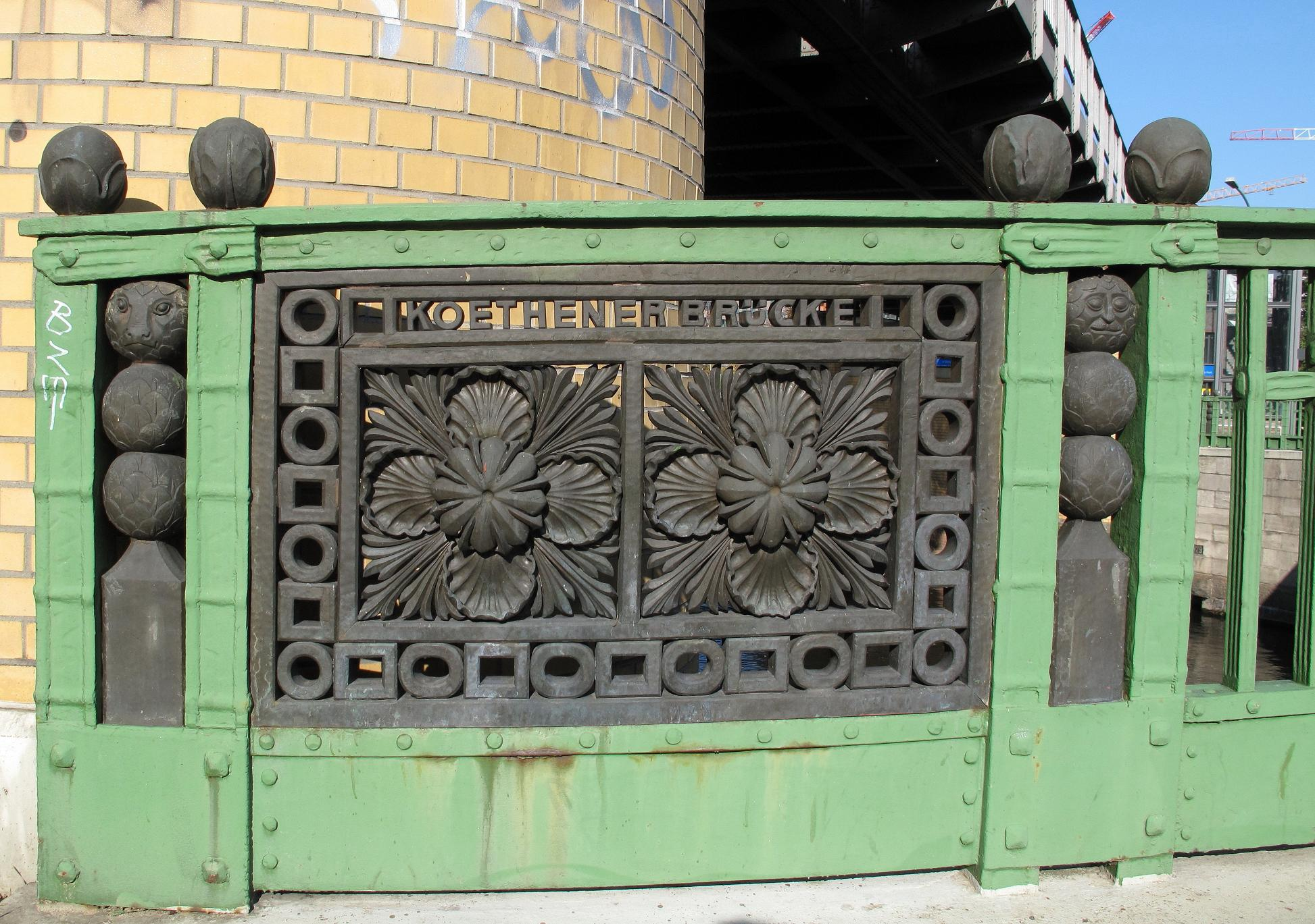 The Köthener Brücke is crossing the Landwehrkanal (canal) in Berlin-Kreuzberg, Germany. The listed steel arch bridge was built in 1910 and is a part of the Köthener Straße. Parallel and above of the street bridge, which is situated nearby the U-station Mendelssohn-Bartholdy-Park, crosses the elevated bridge of the Underground line U2 the canal.